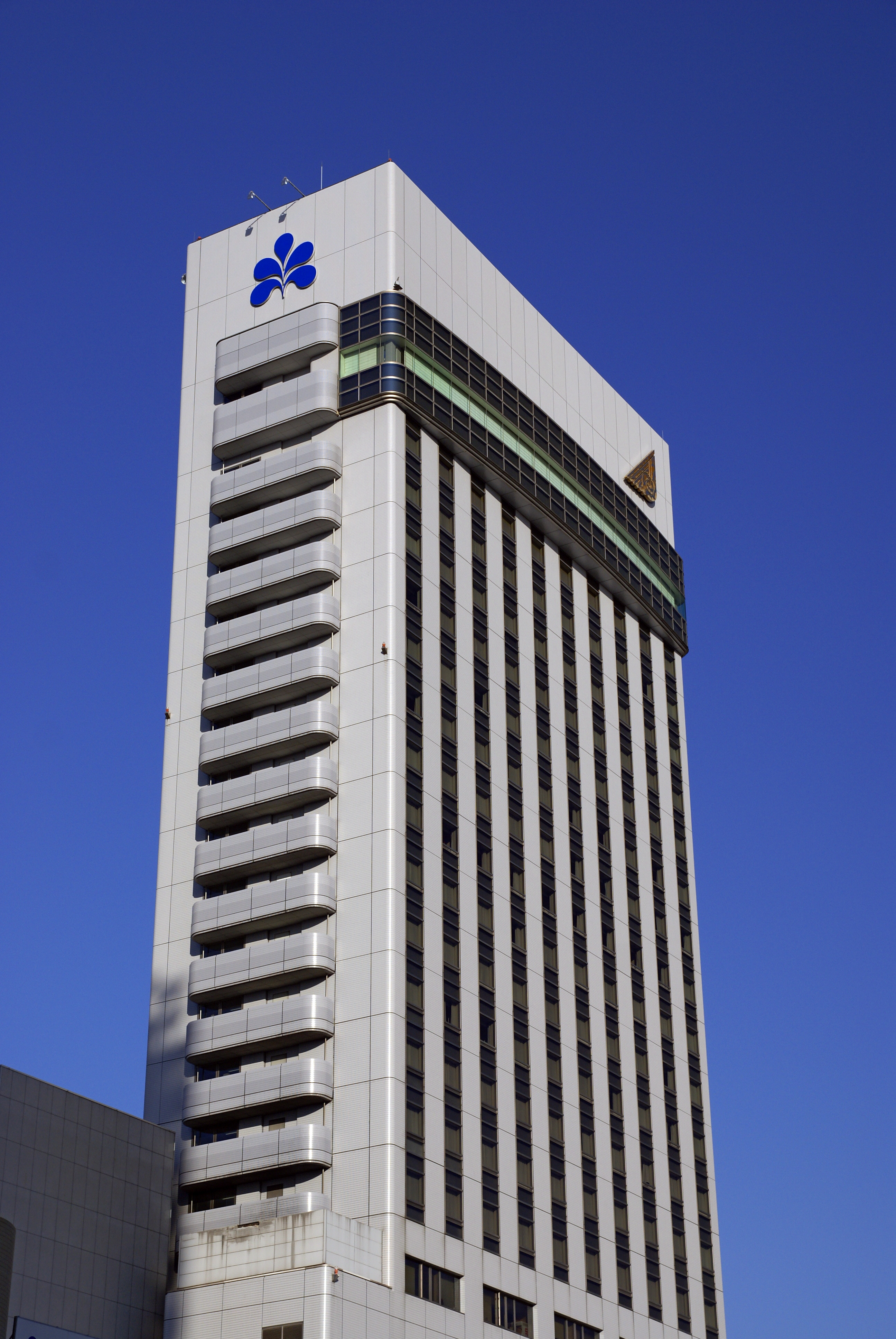 Hotel Nikko Kochi Asahi-Royal in Kochi, Kochi prefecture, Japan